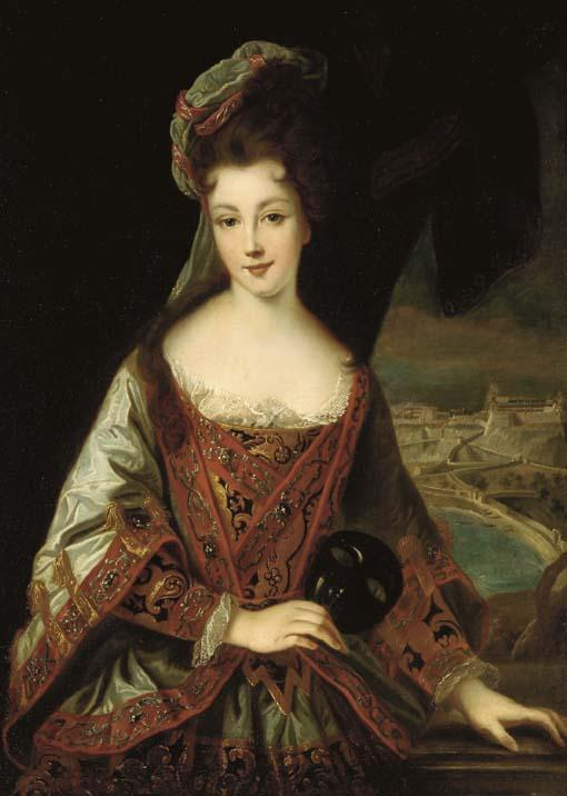 Louise Hippolyte Grimaldi with a view overlooking Monaco